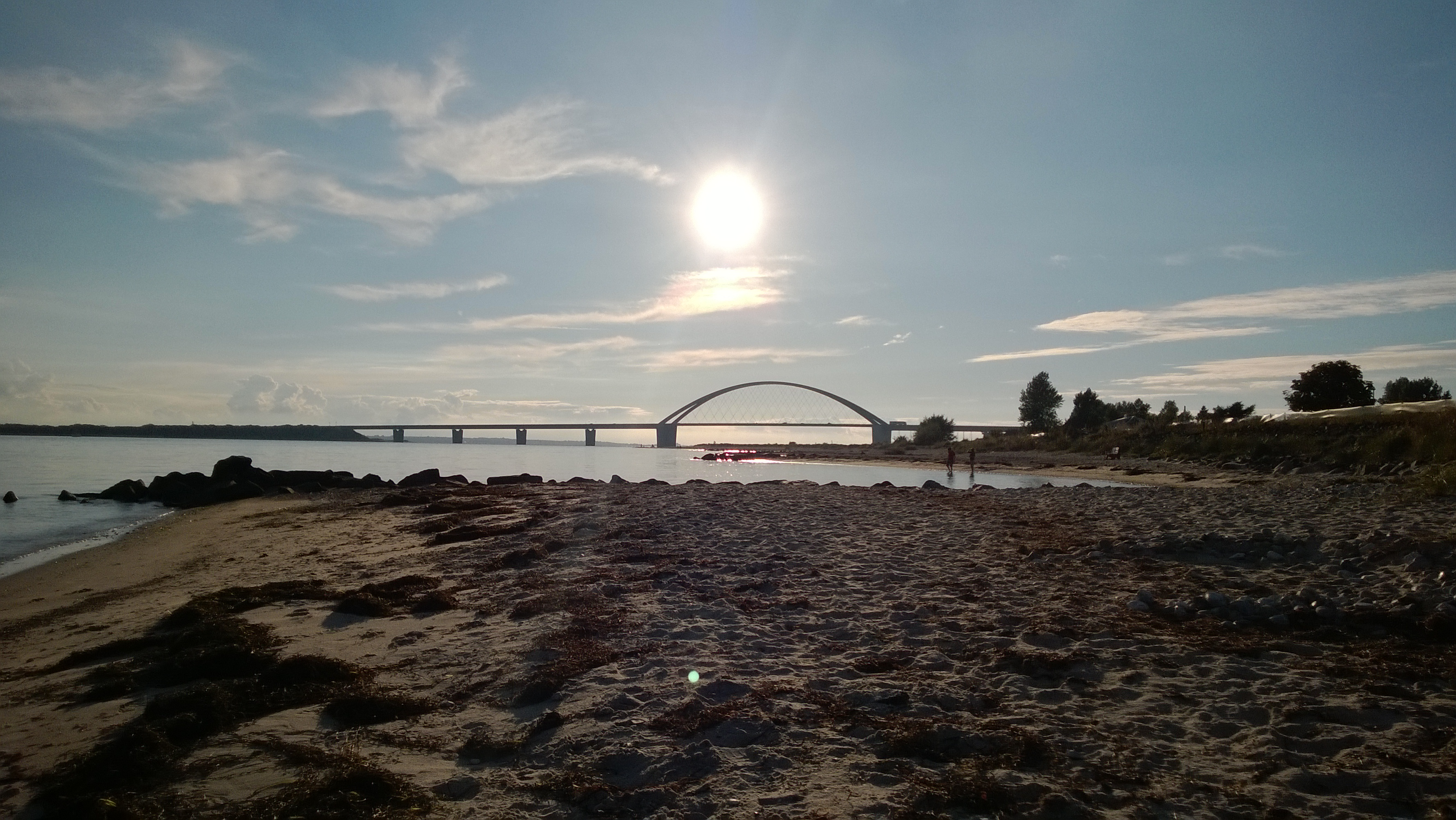 Fehmarnsund Bridge